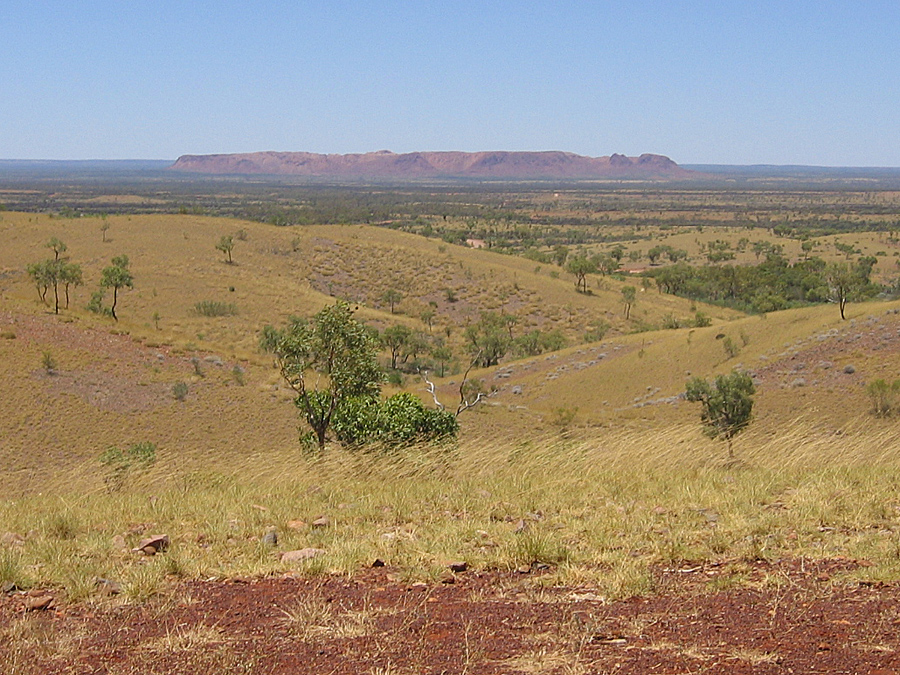 Gosse Bluff Crater, Northern Territory, Australia